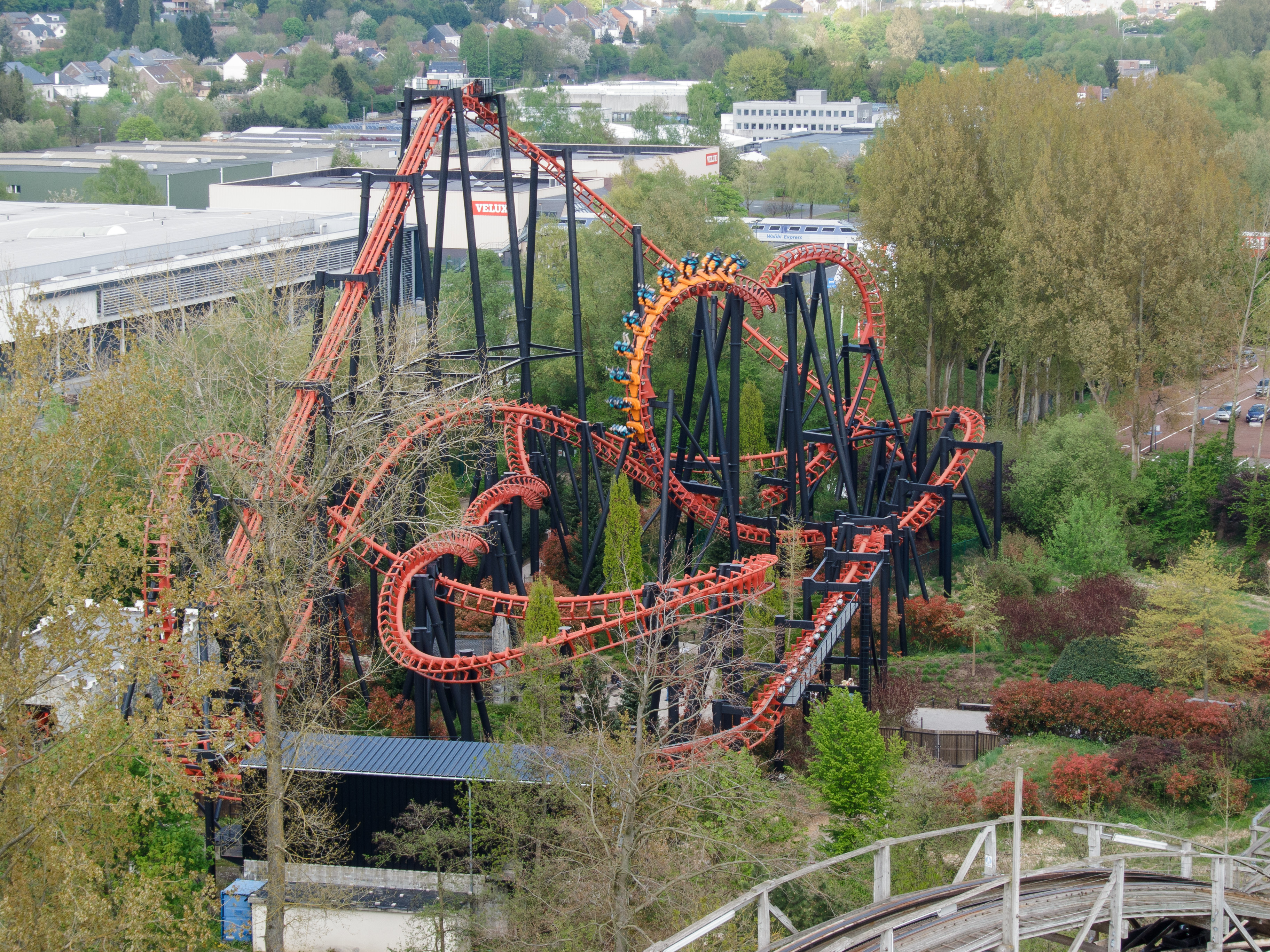 Vekoma SLC Vampire at Walibi Belgium